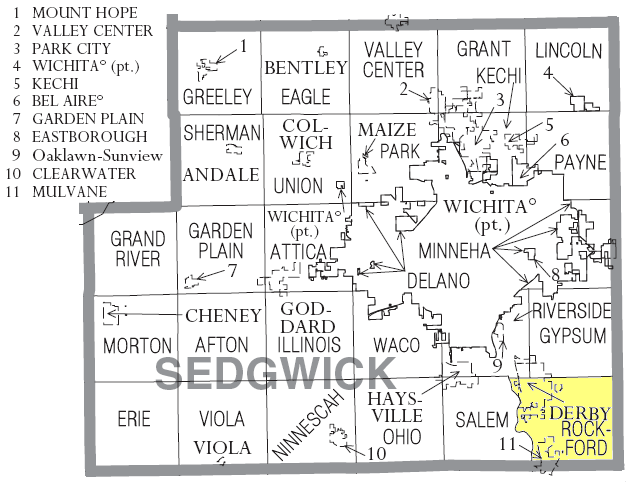 Map of Sedgwick County, Kansas highlighting Rockford Township